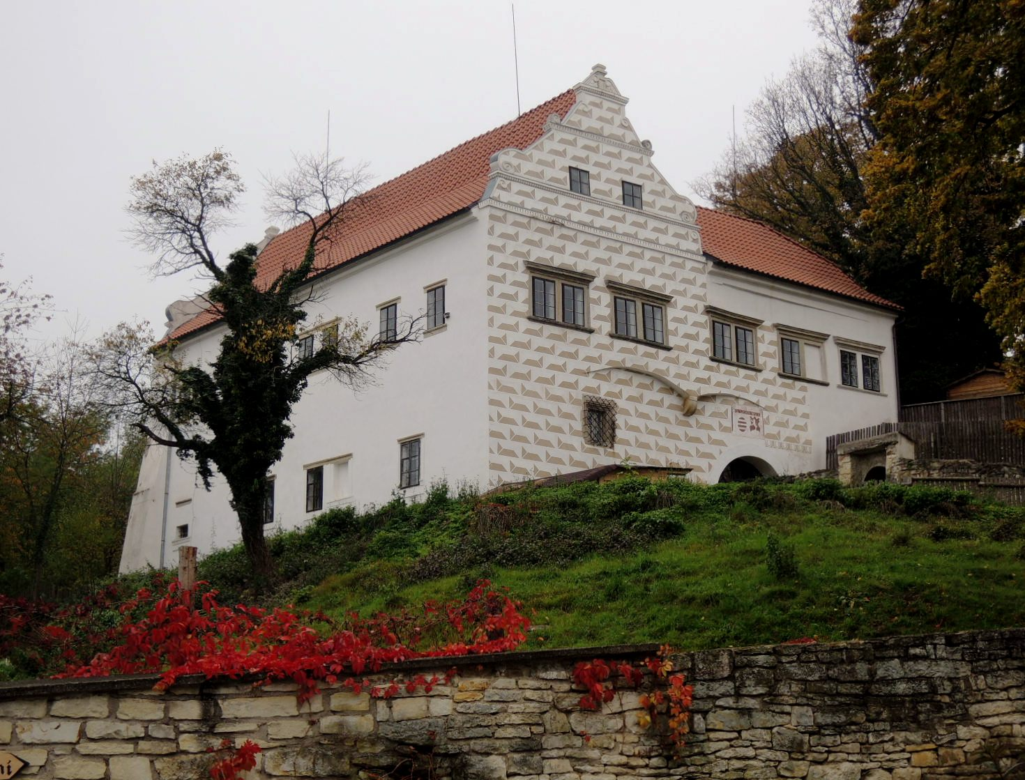 Košumberk, castle from the E